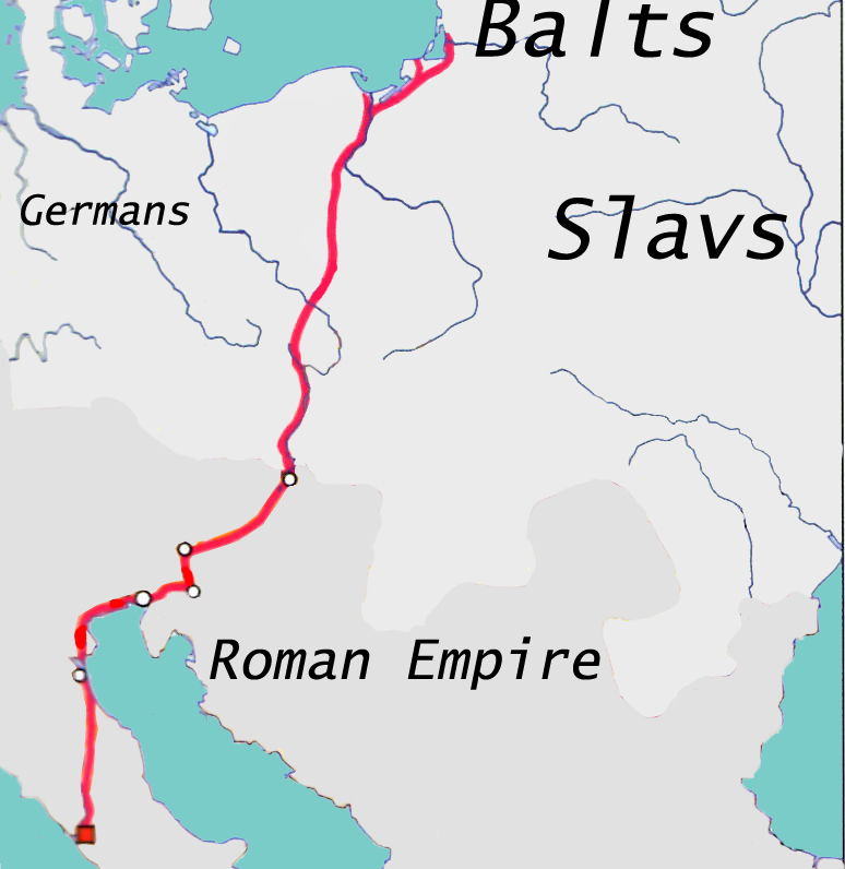 Amber way